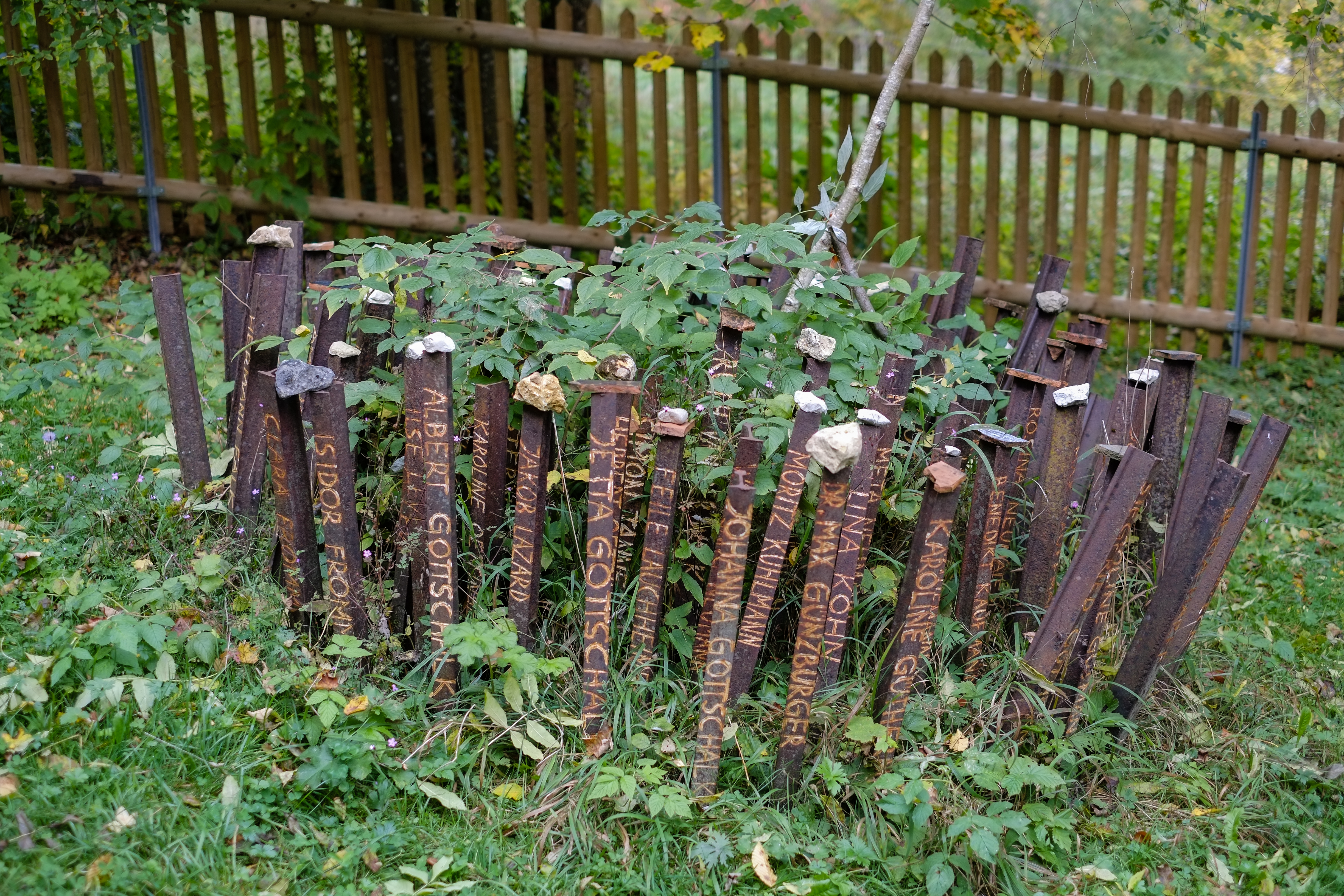 Memorial for (for the most part) older jews, who were brought here from the regions around Buttenheim. They were housed in the - at this time - nearly empty jewish homes of Buttenheim - they had to wait for their transport to the concentration camps, where they, with very few exeptions, were murdered. Jewish cemetery Buttenhausen, Münsingen, Baden Wurttemberg, Germany